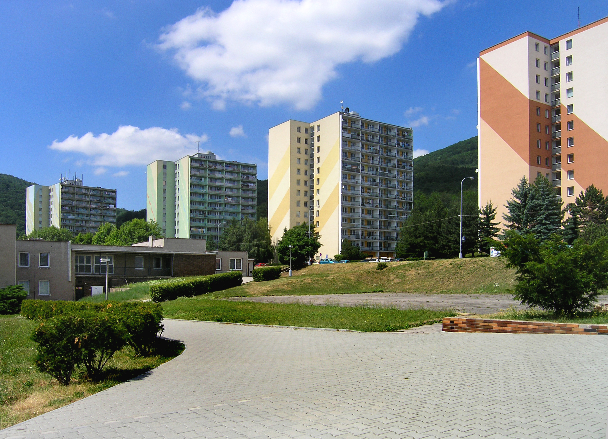 Housing estate by Hrdlovská street in Osek town, Czech Republic